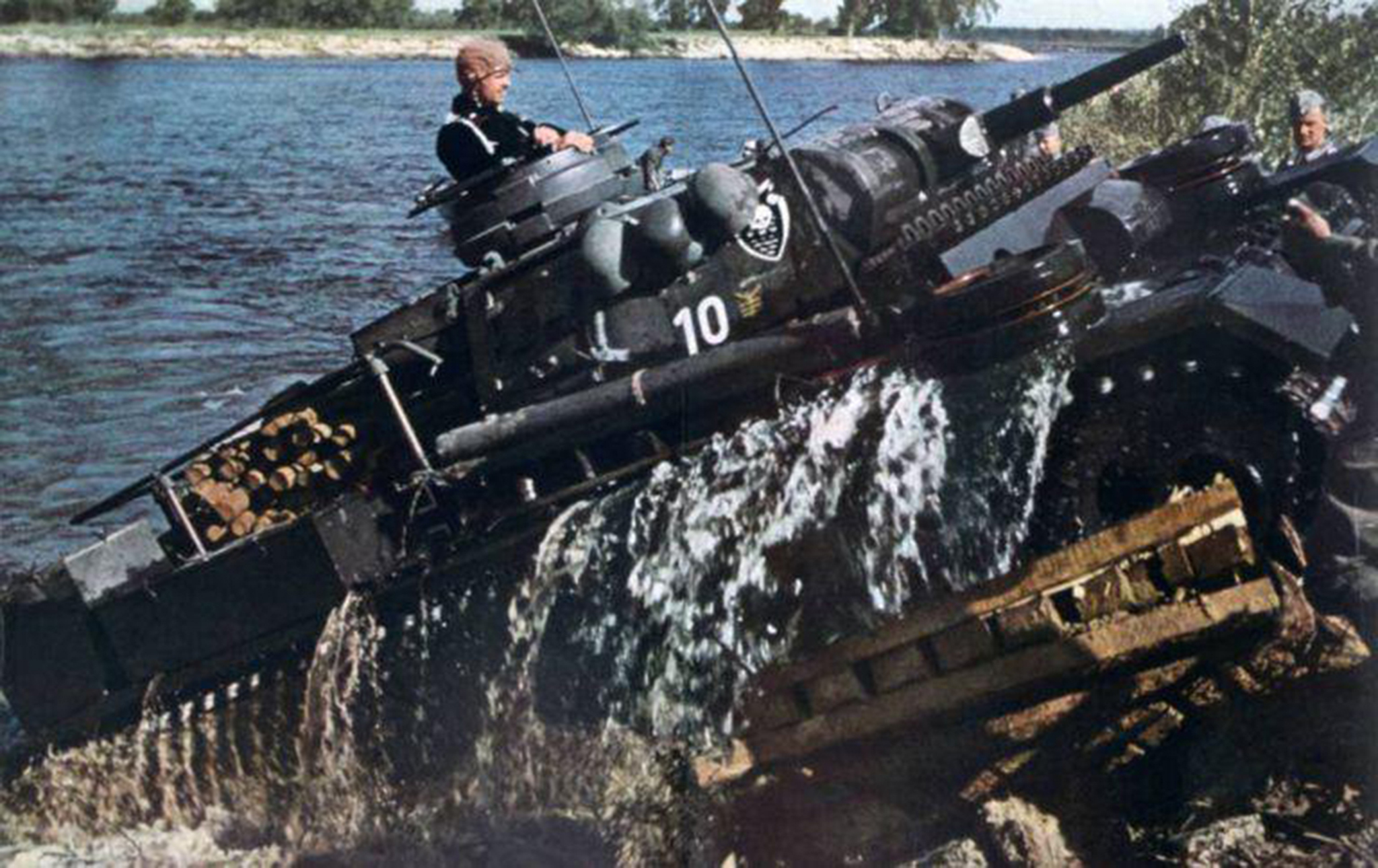 A German Panzerkampfwagen III Ausf J medium tank negotiating a river crossing in central Europe during WWII. This tank has a main armament of with a 50mm L/42 main gun. (Australian War Memorial 044596). A German Panzer III Ausf.J tank. The tank belongs to 18th Panzer Division and the photograph was probably taken during the crossing of the River Bug at Pratulin in June 1941. (George Forty, A Photo History of Tanks in Two World Wars, Blandford Press, 1984, p. 80.)